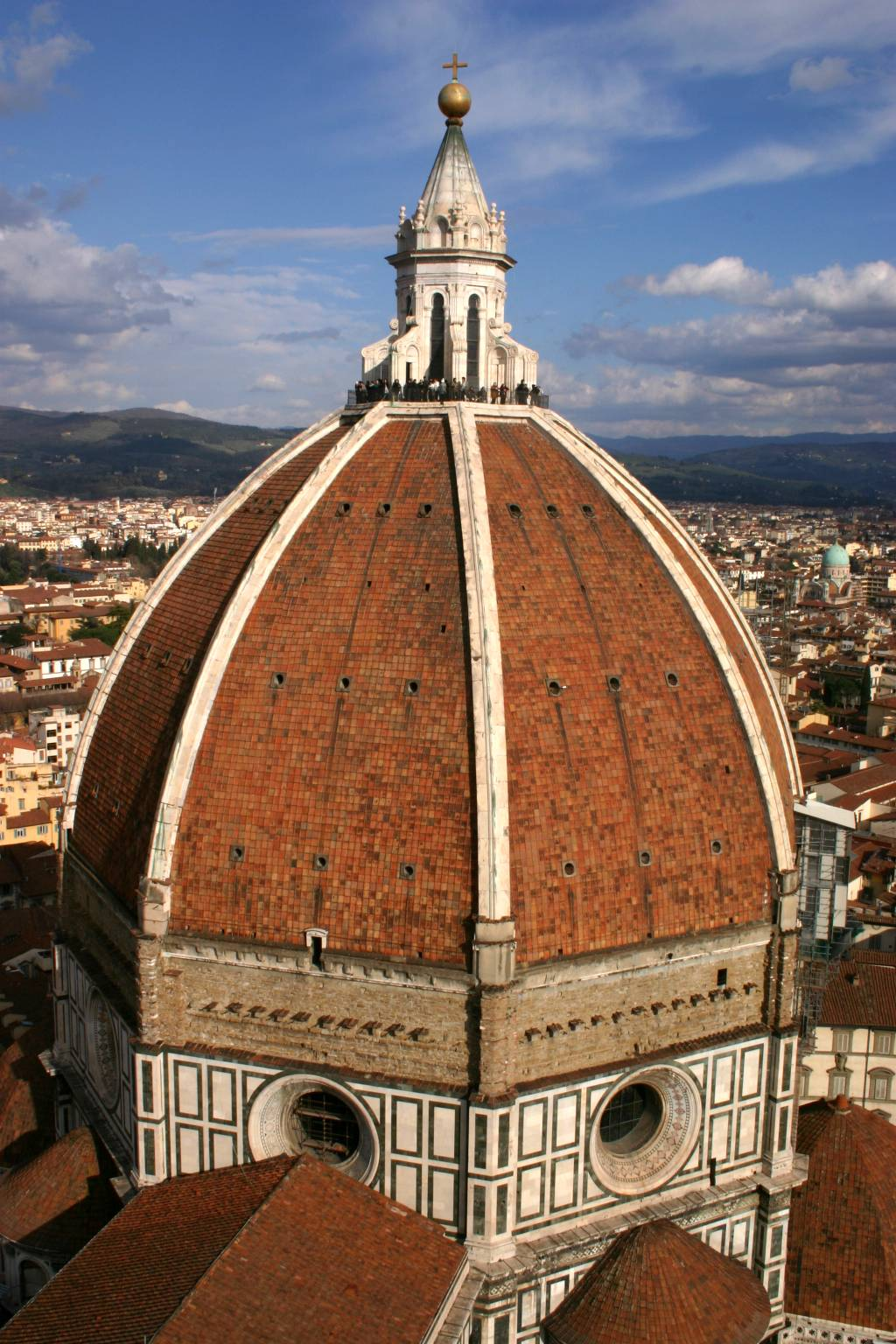 Florence Cathedral dome.